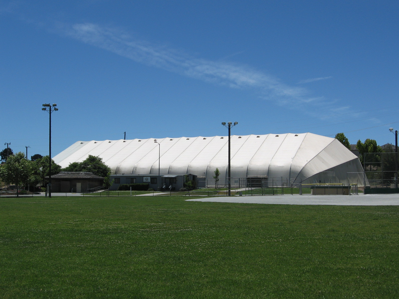 The Soccer Central Indoor Sports Arena, located within Ramsay Park in Watsonville. Primarily used for recreational indoor soccer leagues; may also be rented by the general public.